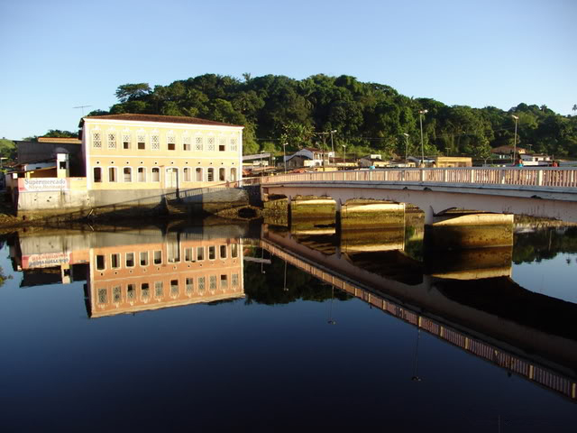 Foto de Nazaré